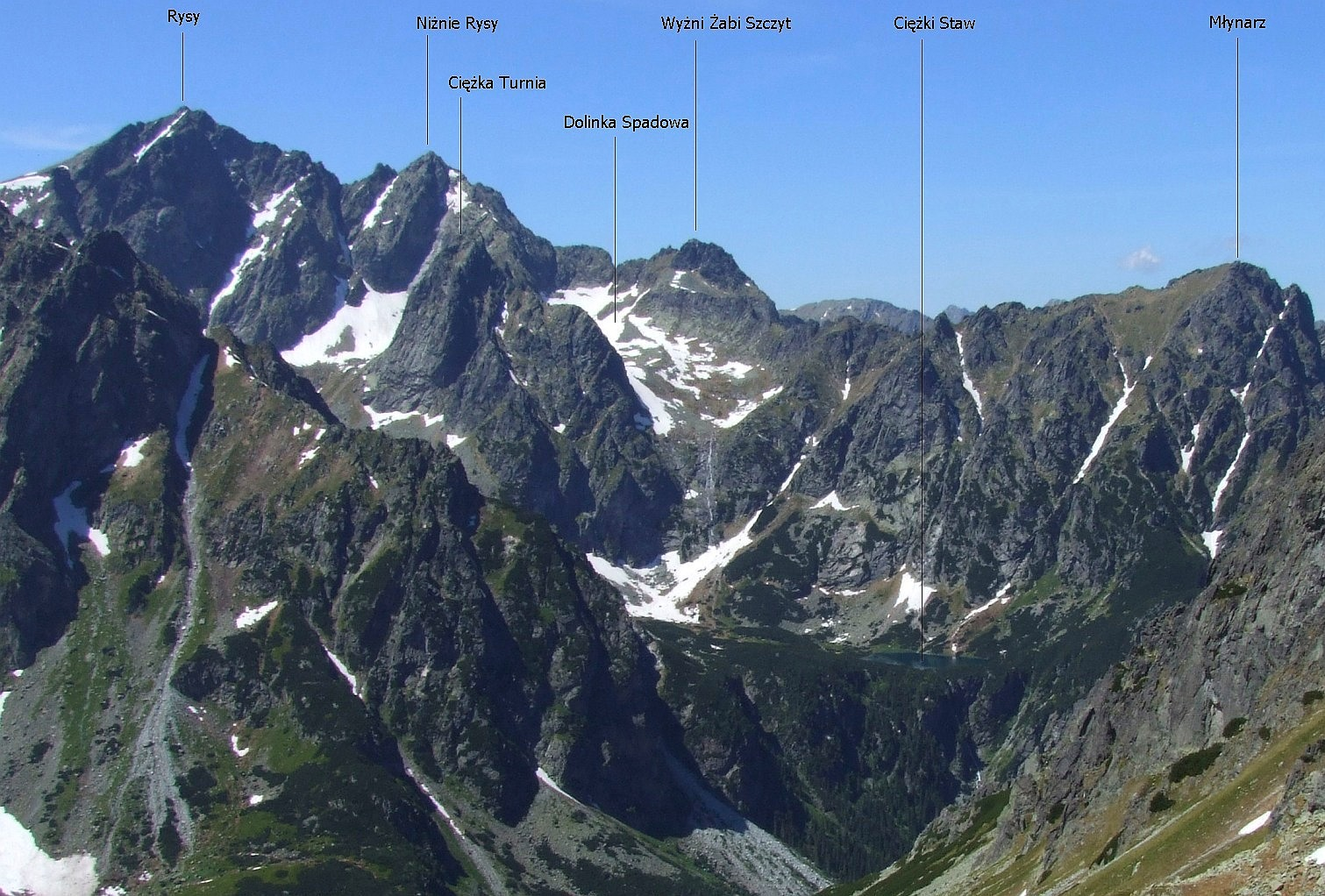 Peaks of the High Tatra Mountains, in the Unesco biosphere reserve and Tatra National Parks of Poland and Slovakia.